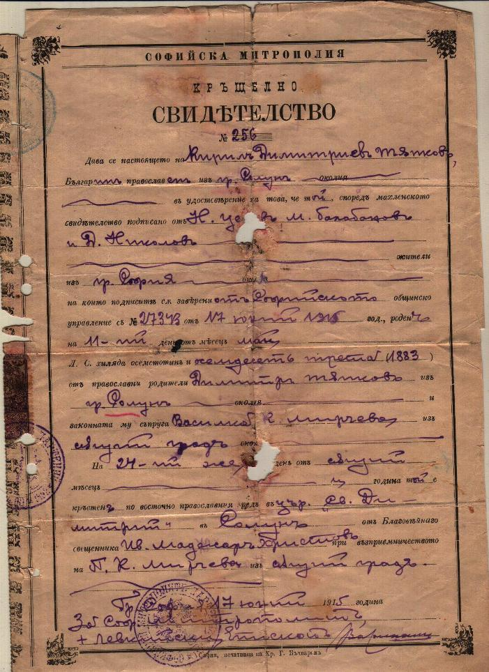 Certified Copy of Kiril Tapkov Baptism Certificate from Thessaloniki Exarchate eparchy